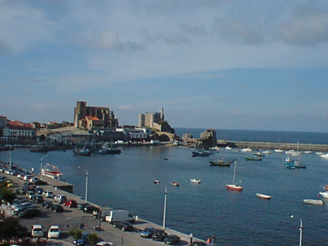 decription:Foto Castro Urdiales author: F. Gonzalez Source:own work date: 2005